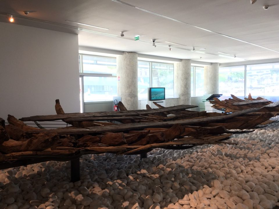 Roman wreck Jules-Verne 4. Photo taken by Florianne Capeau on July 1, 2017 at the Marseille History Museum.